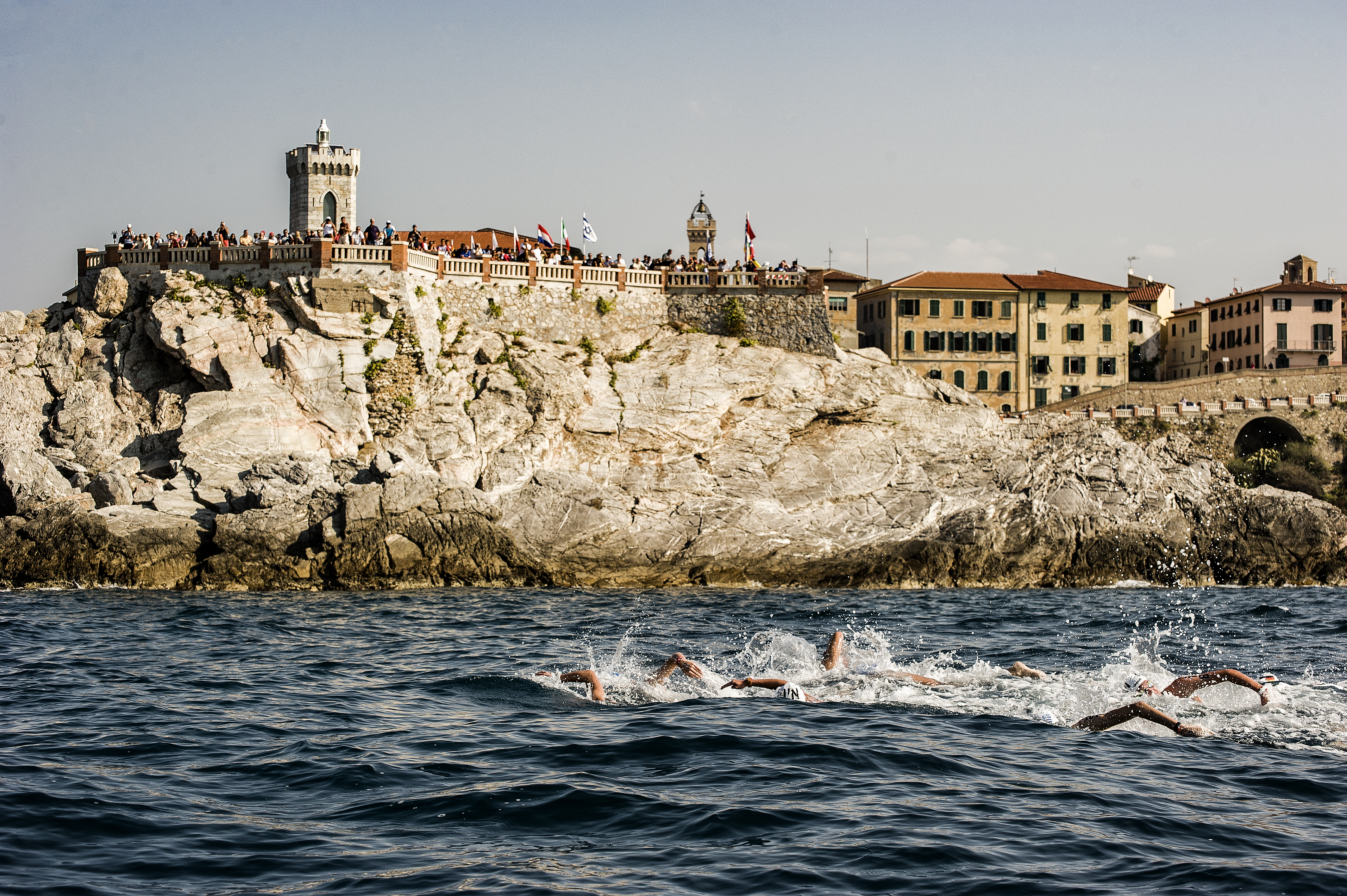 Piazza Bovio in Piombino overlooking the Tyrrhenian Sea during a swim competition. This is a photo of a monument which is part of cultural heritage of Italy.